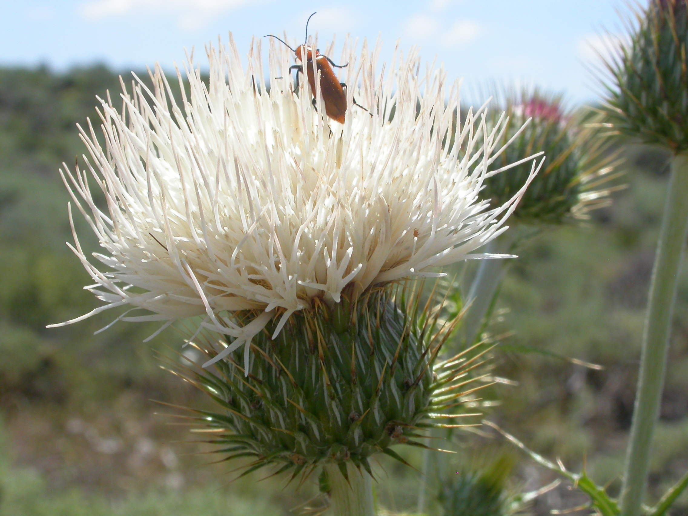 Cirsium canovirens in Butte County, Idaho, USA